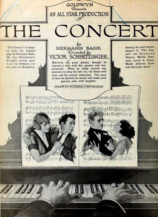 Ad for the American comedy film The Concert (1921) with Myrtle Stedman, Raymond Hatton, Lewis Stone, and Mabel Julienne Scott, on page 16 of the January 16, 1921 Film Daily.